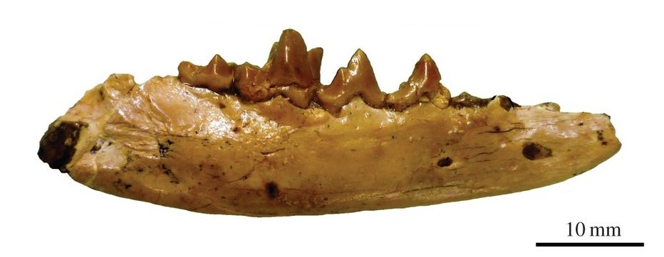 Lower jaw of Angelarctocyon australis (holotype FMNH PM 423), right dentary in lateral view.